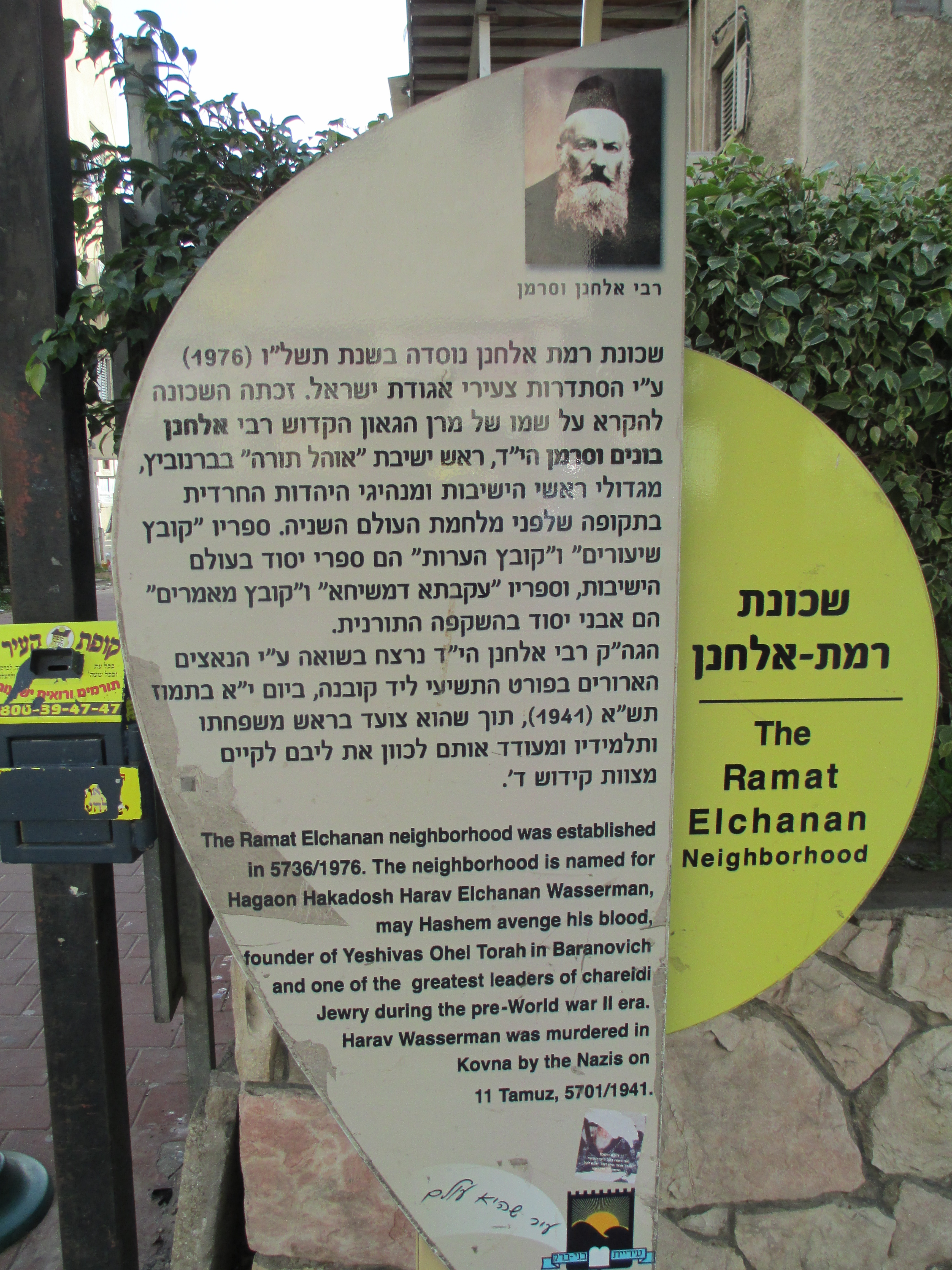 memorial plaque in ramat elchanan, bnei brak לוחית זיכרון בשכונת רמת אלחנן בבני ברק